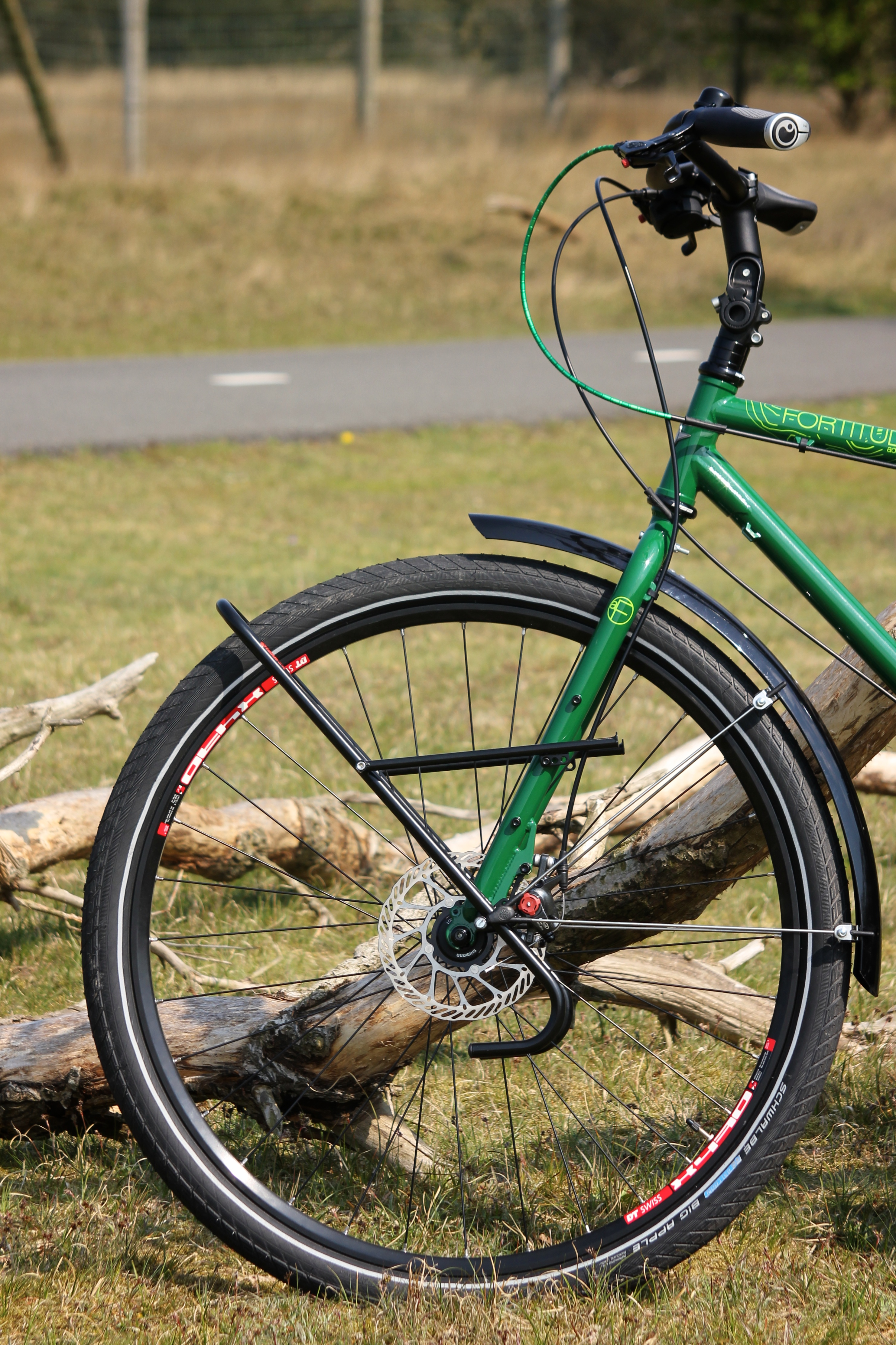 Tubus Tara low rider luggage carrier mounted on a green Genesis Fortitude Adventure bicycle with a frame size of 20.5", made out of Reynolds 725 tubing. The fork has two eyelets at the fork ends, and three mid-fork eyelets. The front fork has a 28" wheel with 32 spokes, a Shimano Deore hub, with a Avid BB7 disc brake. The wheel has a DT Swiss rim with a 50 mm Schwalbe Big Apple tire on it. SKS Bluemels P65 mudguards are also mounted on the bicycle. The bicycle has Humpert Ergotec Boomerang handlebar with Ergon GP1 grips. The rear brake cable has been extended with green Nokon pieces.